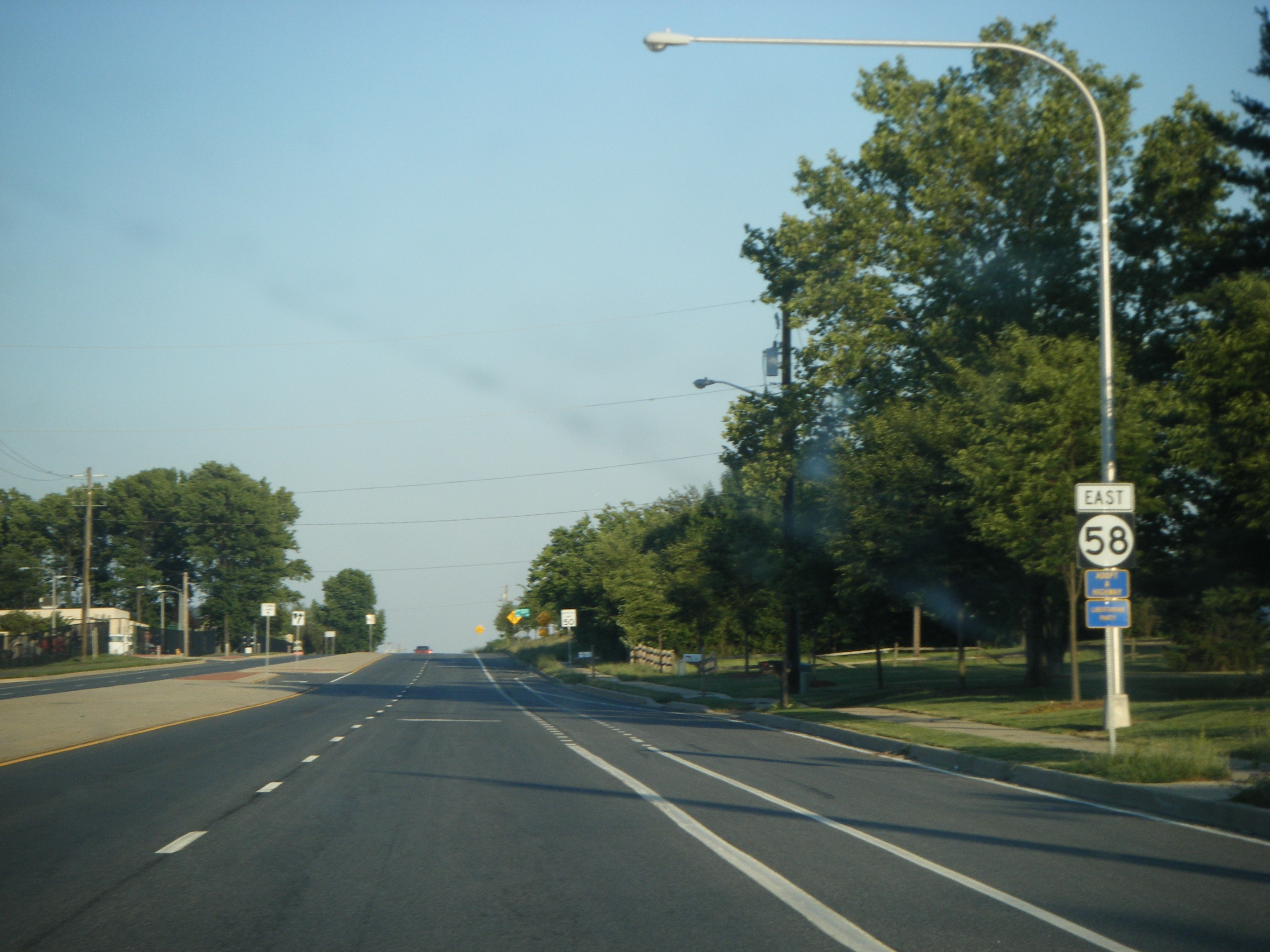 Eastbound Delaware Route 58 (Churchmans Road) past the intersection with Delaware Route 37 (Airport Road) near the New Castle Airport in Delaware